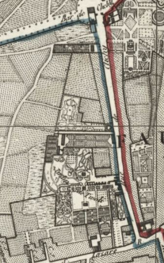 Map of the Tivoli garden along the rue de Clichy, Paris (France) on the plan Collin in 1823.